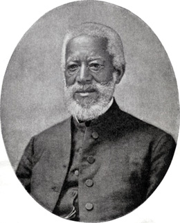 Alexander Crummell (1819-1898) Early African Nationalist.